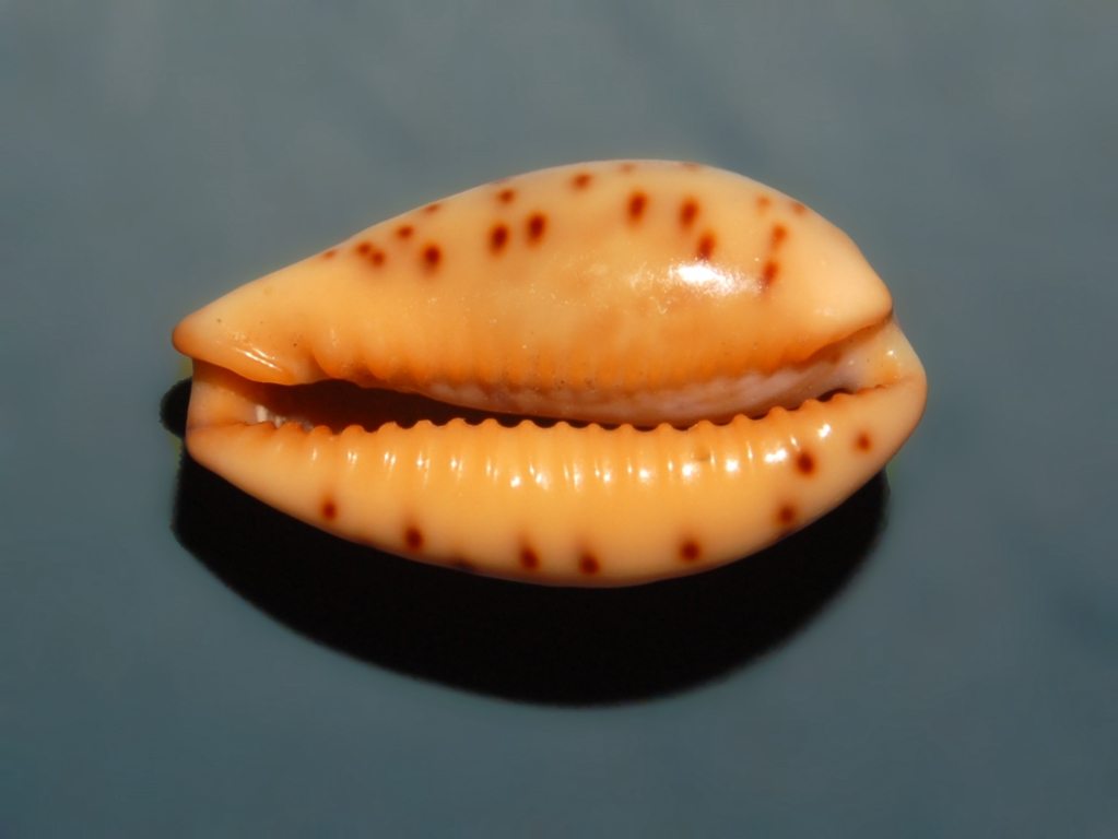 Palmadusta ziczac